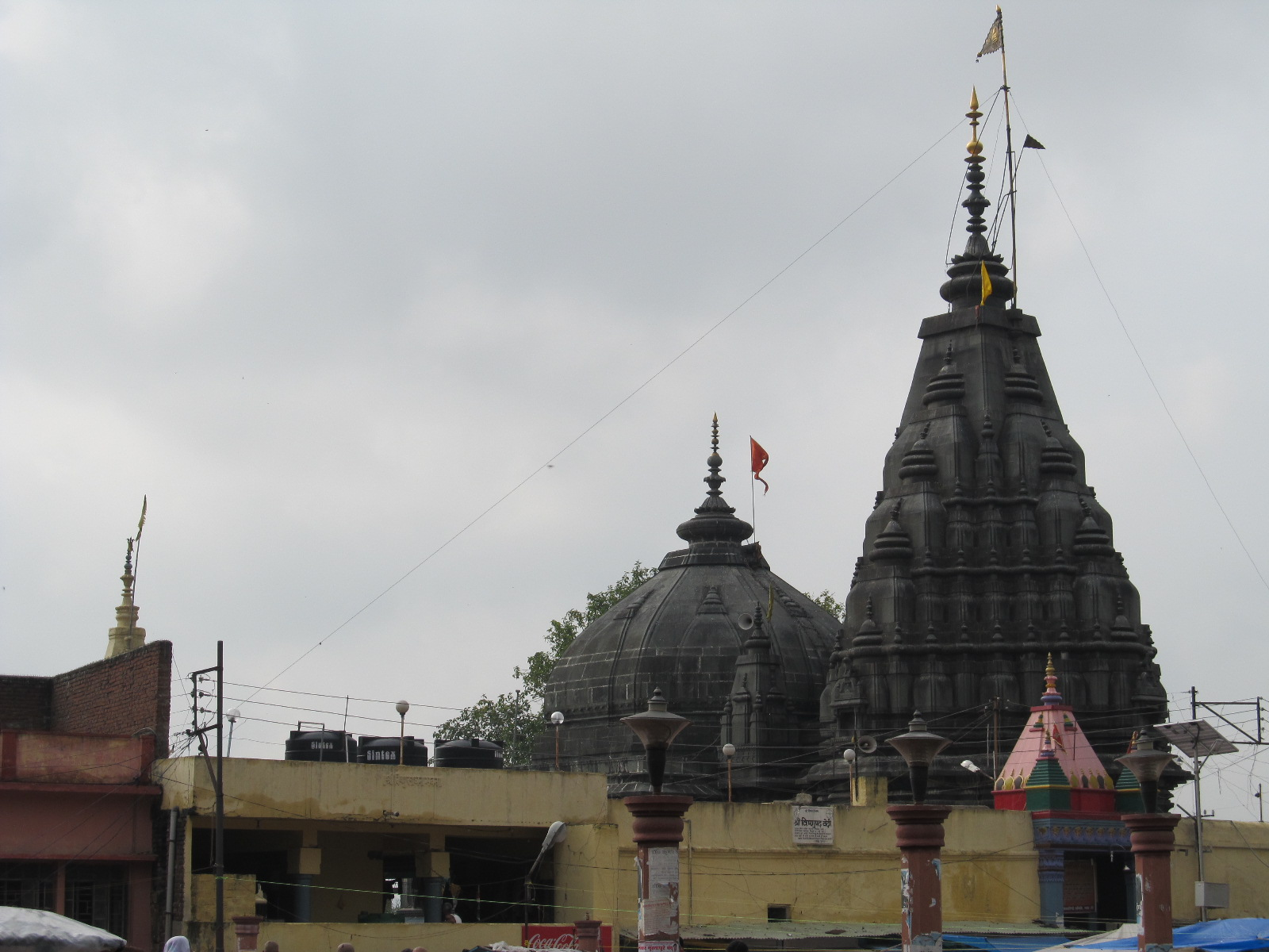 Vishnupad Temple, Gaya